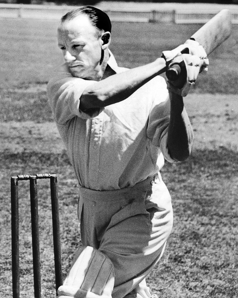 Australian cricketer, Don Bradman, during an interstate series at Adelaide Oval, 31 October 1946. The Age Picture by STAFF